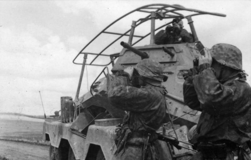 Information added by Wikimedia users.